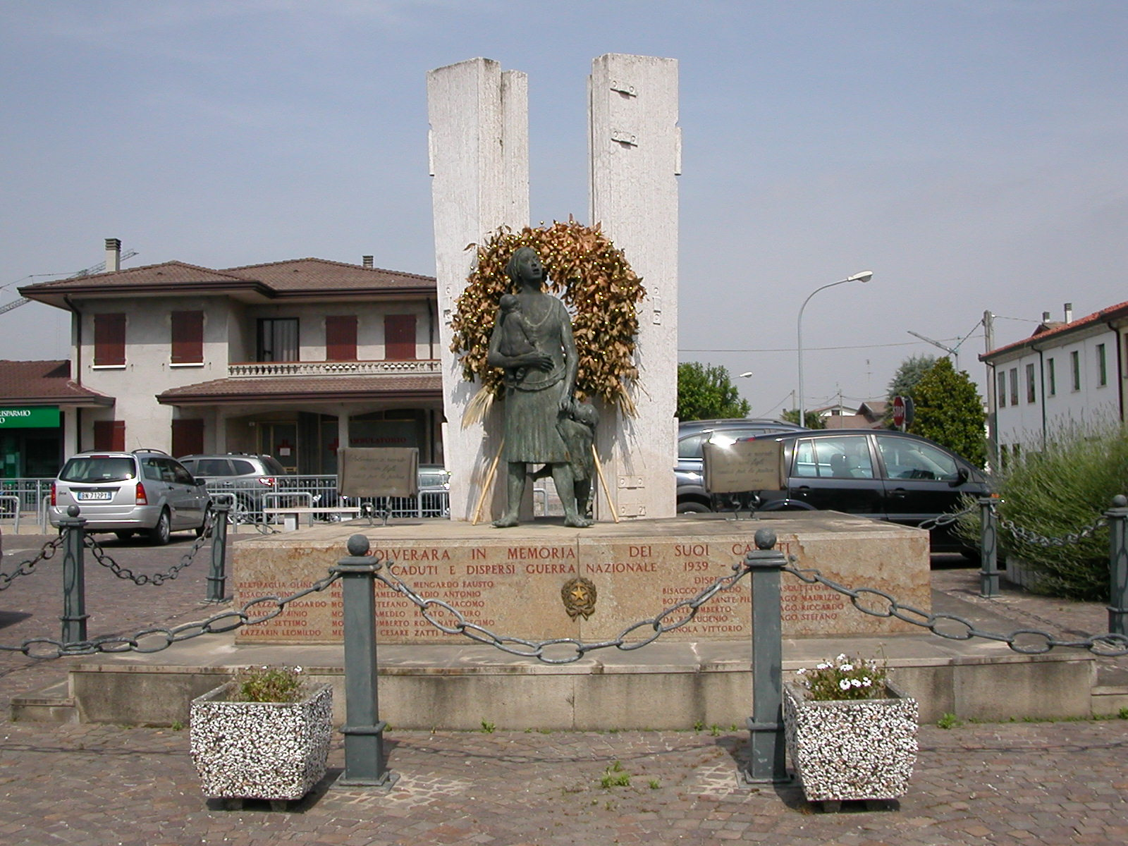 Memorial in Polverara (Padua)